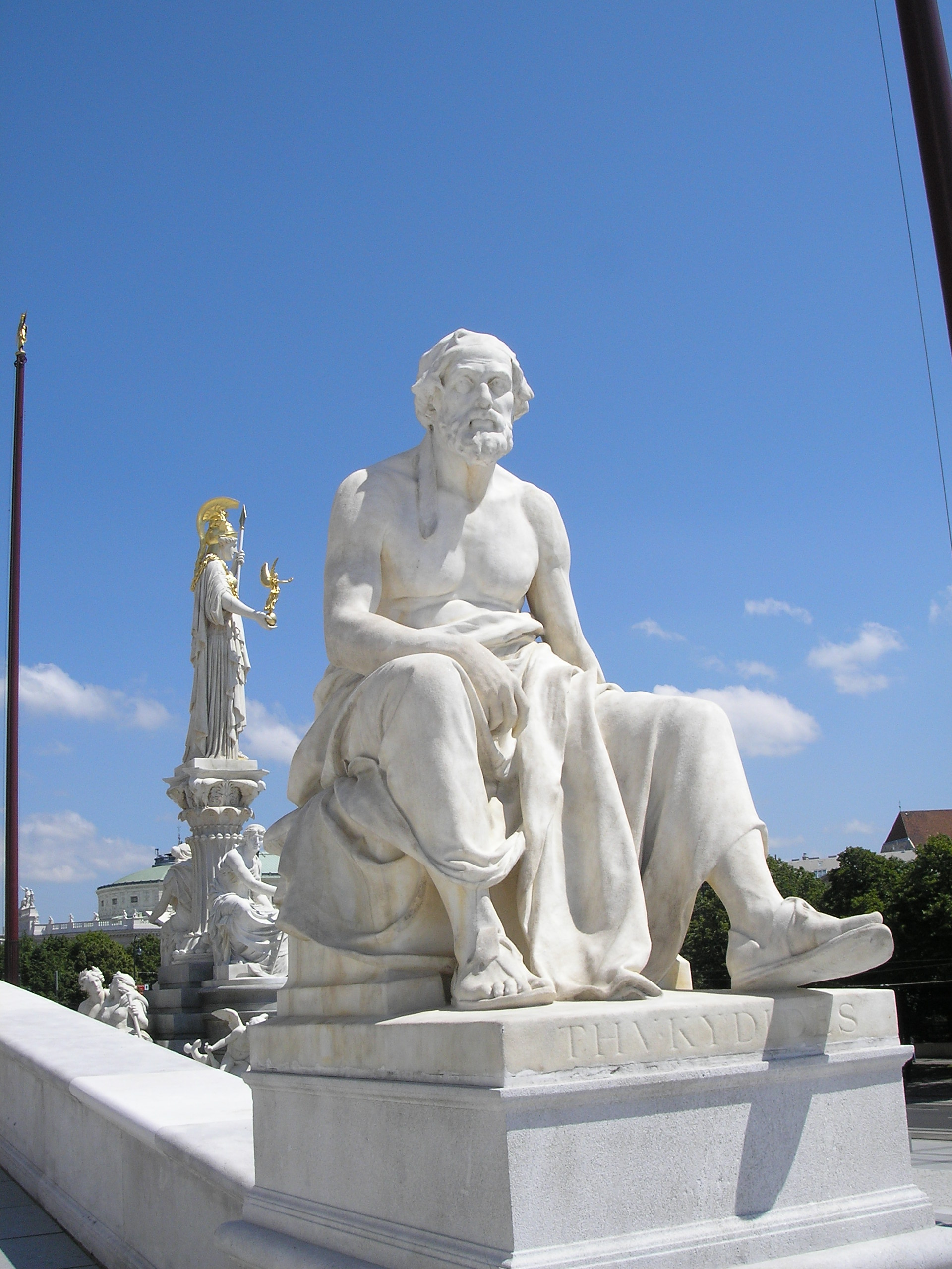 Austria, Vienna, Austrian Parliament Building